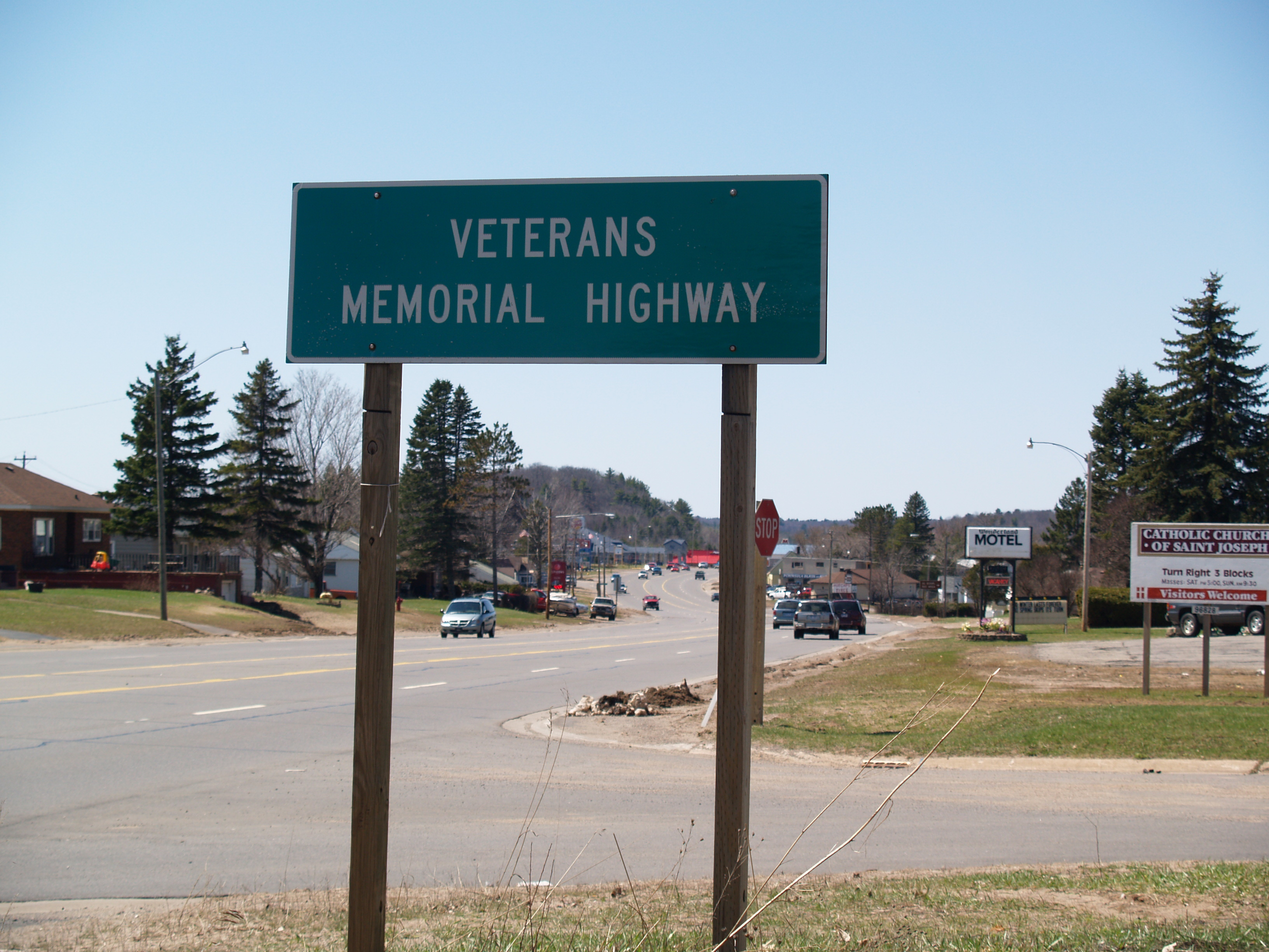 The Veterans Memorial Highway sign west of the Ishpeming, Michigan city line. The highway is US 41/M-28 or Palms Avenue here.